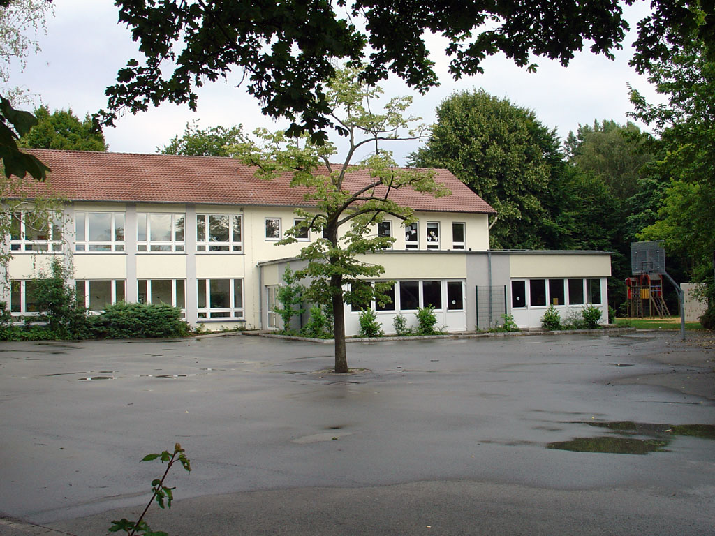 Erich-Kästner school harsewinkel